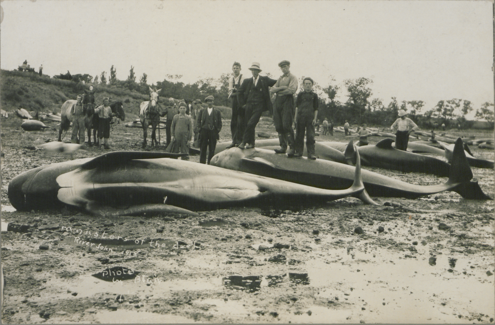 Original caption: “Monsters of the deep. No. 1. [Beached whales.].”